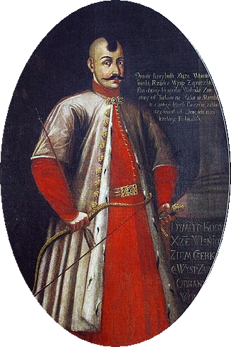 Dmytro Vyshnevetsky (Baida)